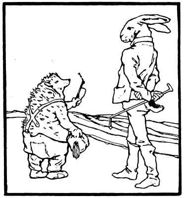 Illustration by Otto Ubbelohde to the fairy tale The Hare and the Hedgehog